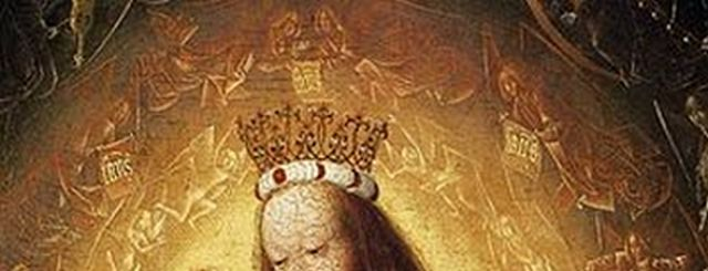 Detail from The Glorification of Mary by Geertgen tot Sint Jans.